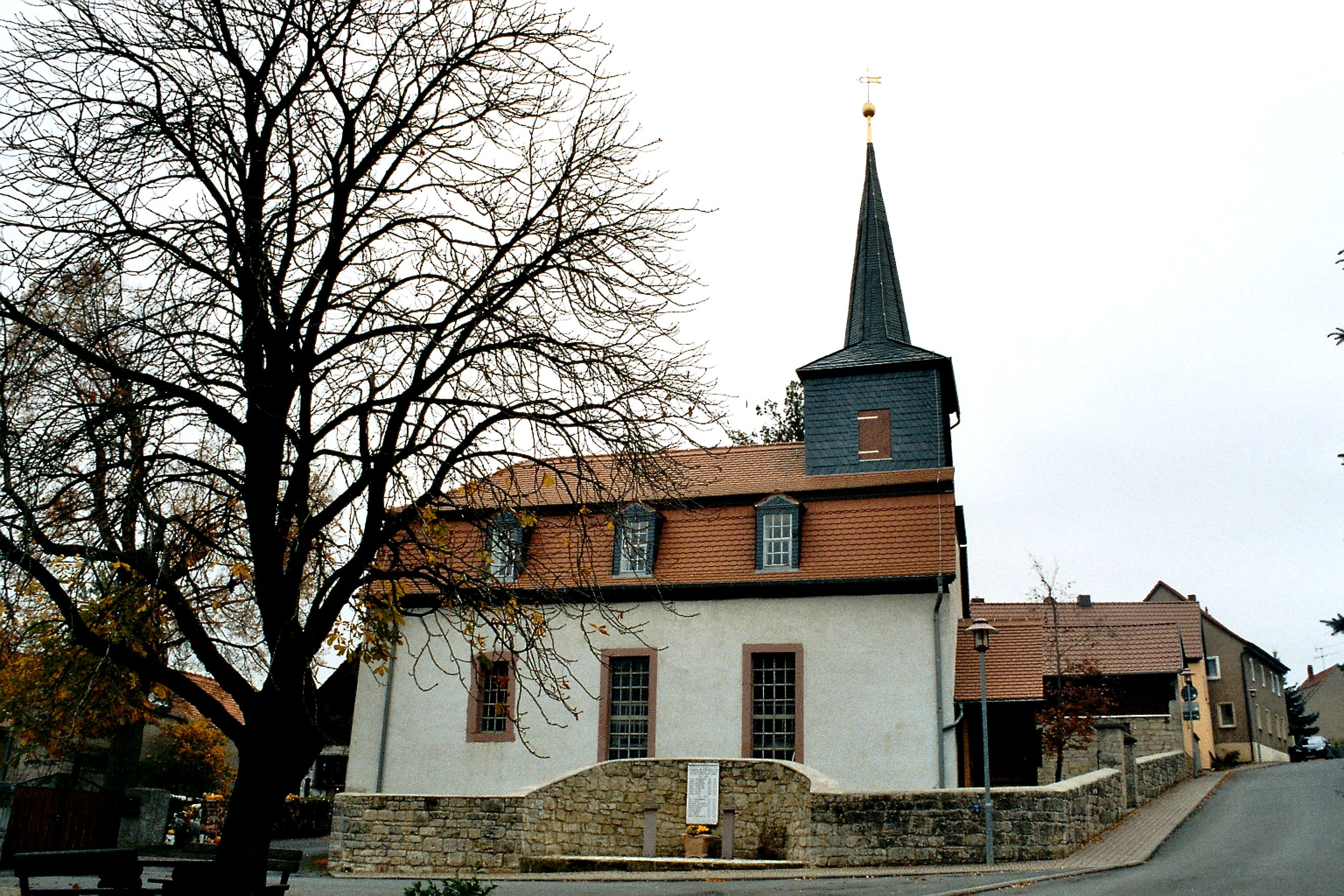 Kiliansroda, the village church